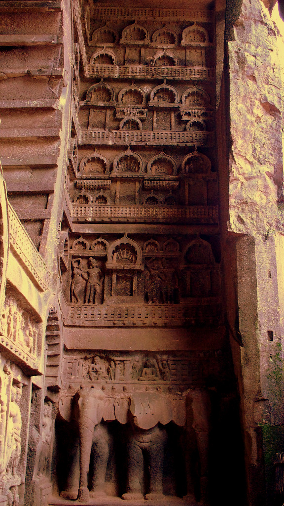 Caves at Karla, near lonavla, maharashtra